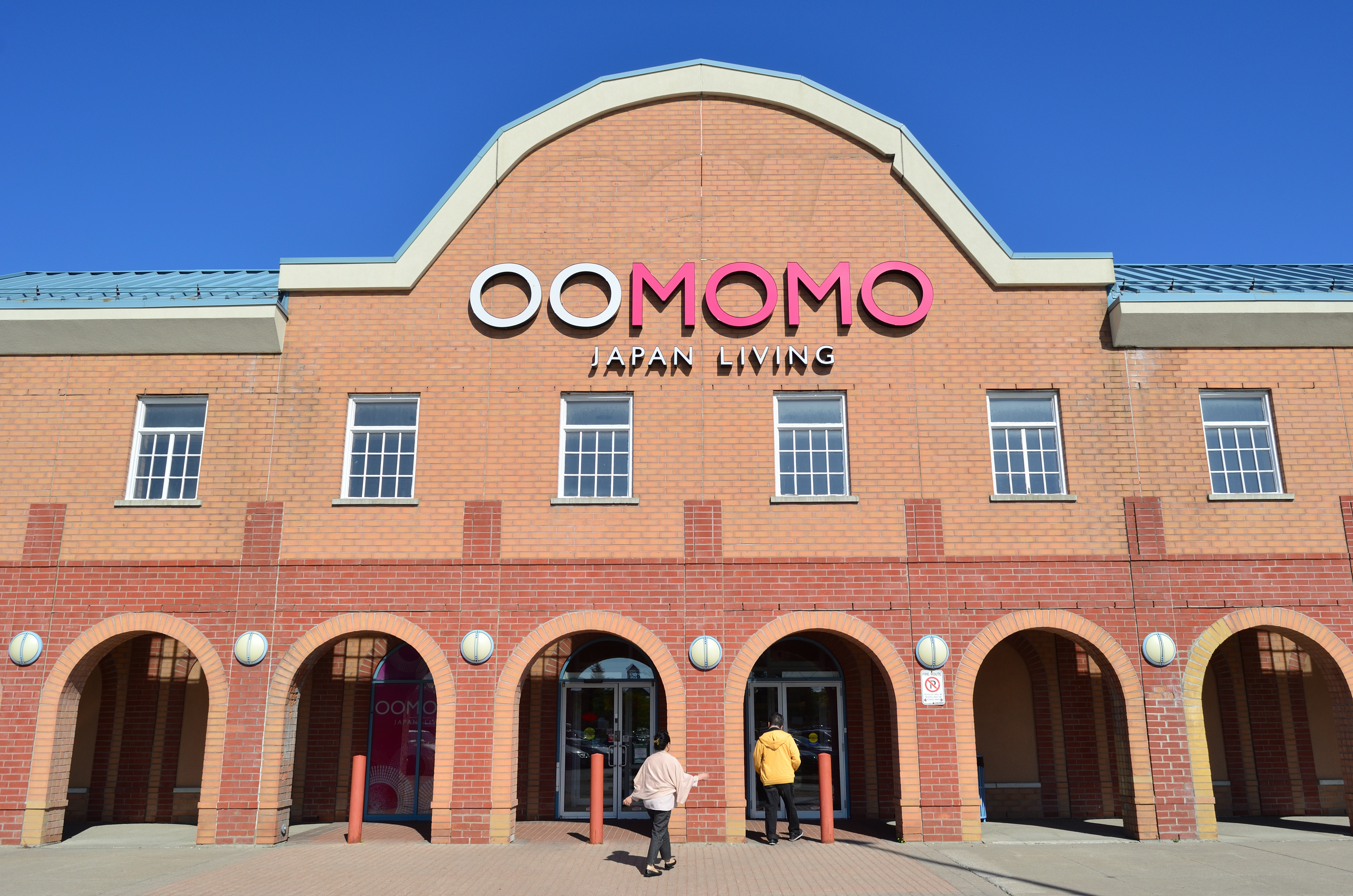 OOMOMO at First Markham Place